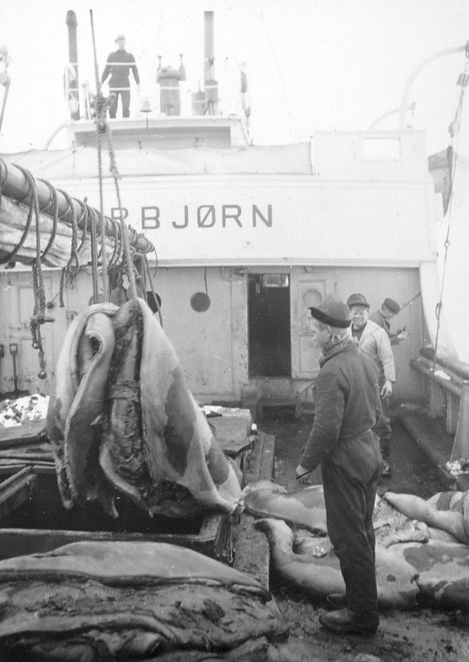 In the 1930s, the Norwegian zoologist Per Høst (1907-1971) participated as a researcher (observator) on seal hunting expeditions. The archive of the Seal Hunting Commission 1926-1959 (NRA S-1626) contains his reports from several years and 78 pictures from 1931. Archive reference: National Archive, Norway, S-1626 U2_2_11[3].